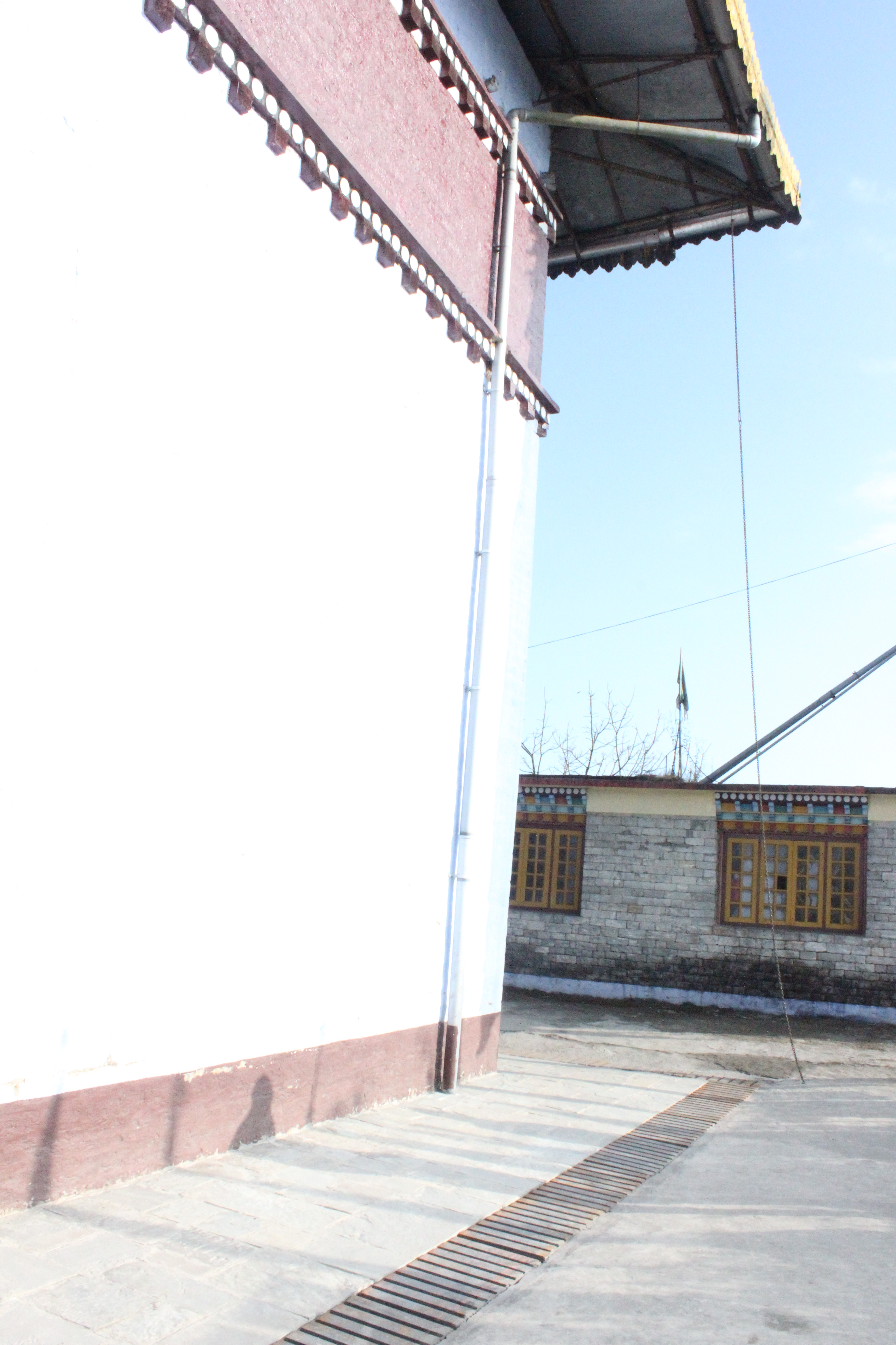 This picture shows the preservation steps taken at the Pemayangtse Monastery.